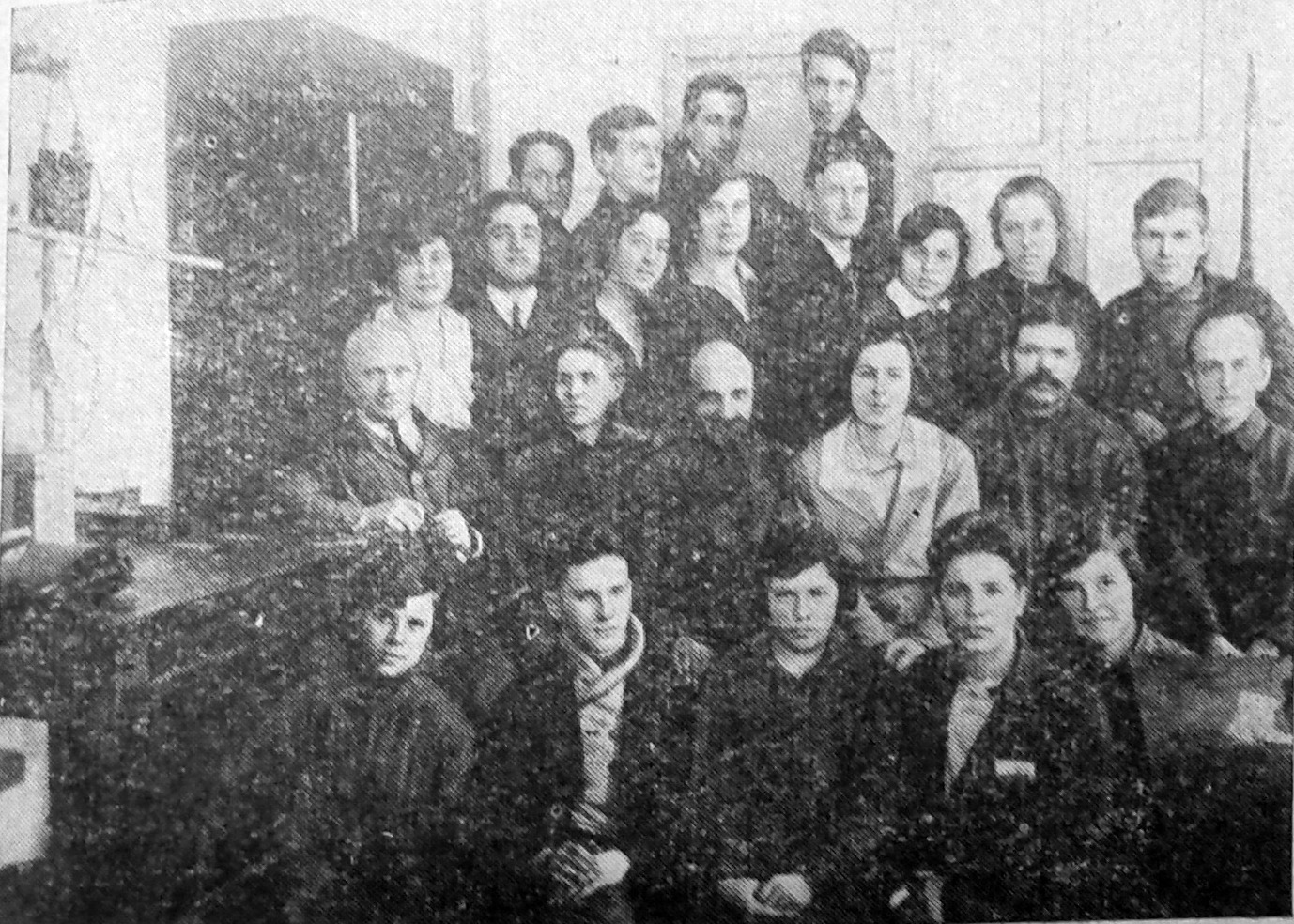 Employees of the Central Radio Laboratory (Vacuum Physics and Technology Laboratory) CRL in Leningrad, Russia, 1930. In the second row, left to right: D. E. Malyarov, N. V. Nefedieva, B. A. Ostroumov, V. N. Lepeshinskaia, S. I. Bogomolov, E. G. Koenig. In the fourth row, third from the left Oleg V. Losev.